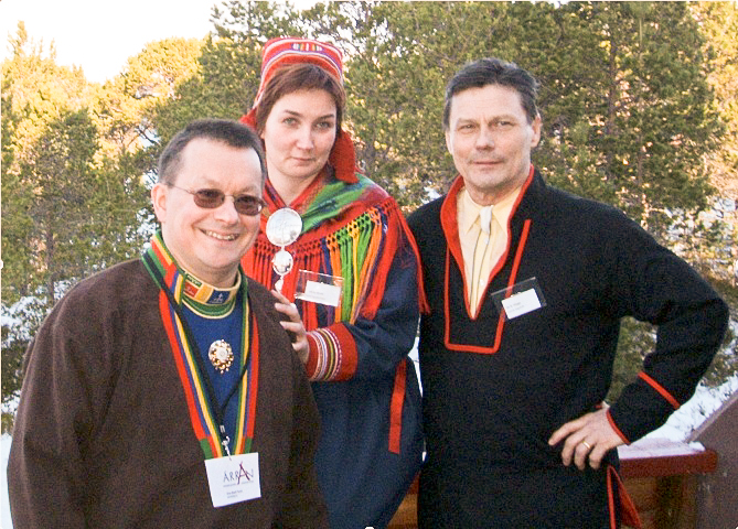 From left to right: Sven-Roald Nystø, Aili Keskitalo and Ole Henrik Magga, the second, third and first president of the Norwegian Sámi Parliament. Picture by Trond Trosterud.